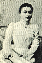 Russian conductor and pedagogue Vasily Ilyich Safonov (1852—1918) with his pupils from Moscow Conservatory (from left to right): Rosina Lhévinne, Alexander Goedicke, Elena Beckman-Schcherbina, Olimpiada Kartasheva and Aglaida Fridman